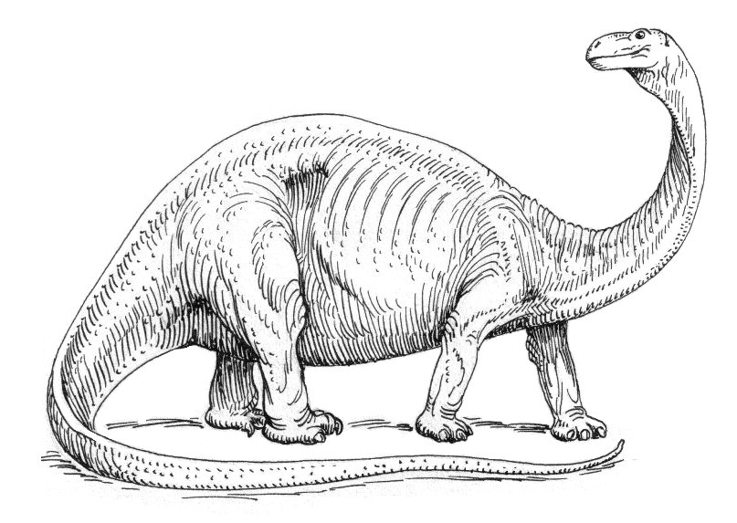 line art drawing